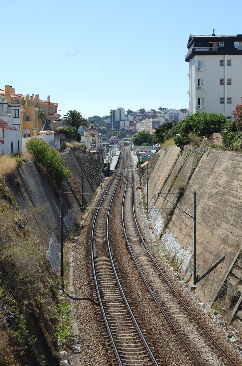 Railways and Estoril Station